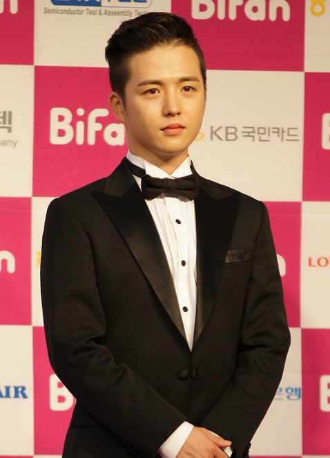 Kim Hye-seong at the 19th Puchon International Fantastic Film Festival, in July 2015.